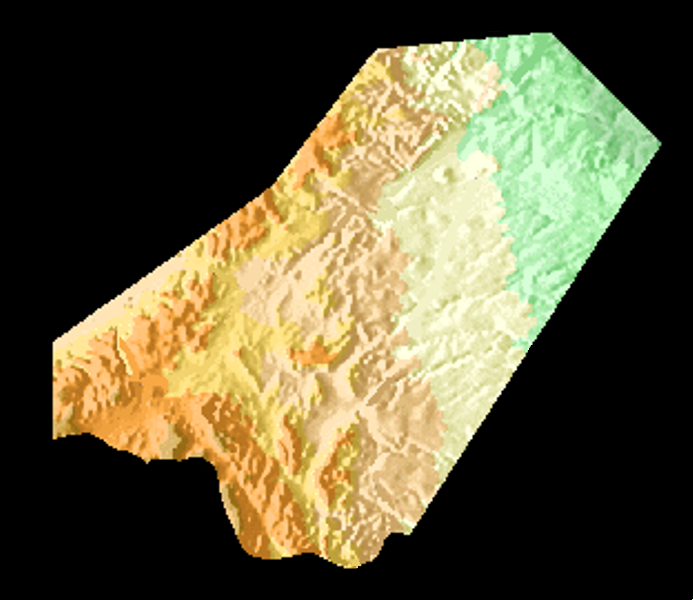 topographic map of Ali Sabieh Region